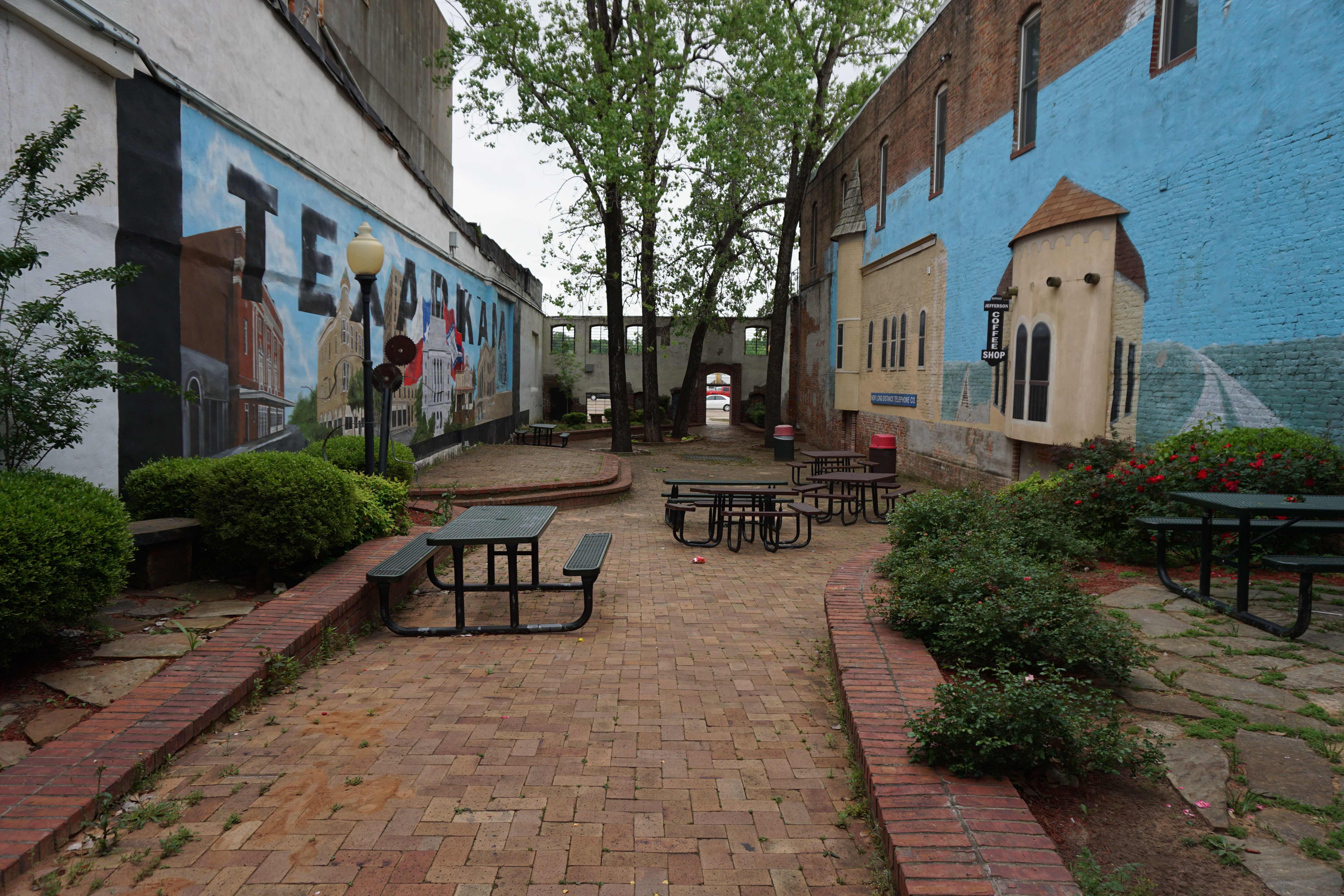 Broad Street Park in Texarkana, Arkansas (United States).